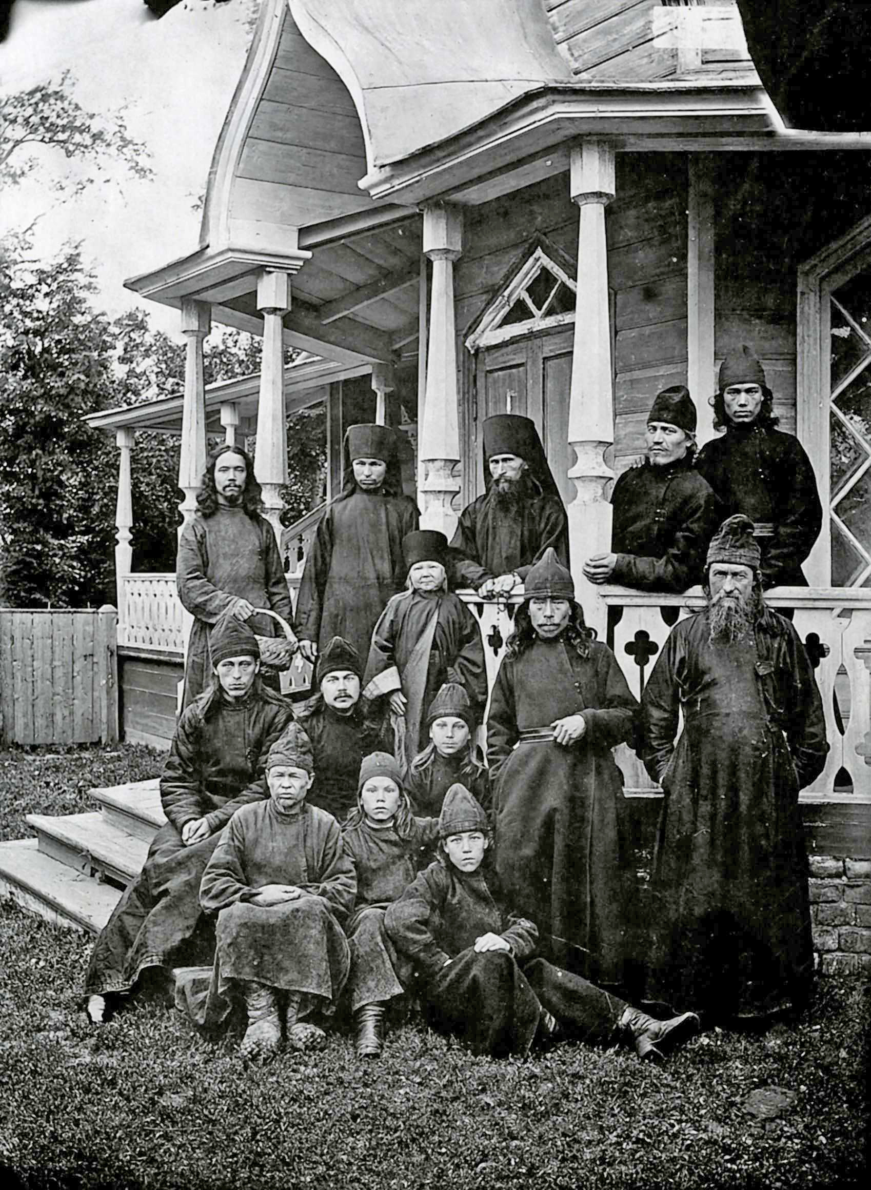 Mari orthodox monks and novices in Hill Mari Michael the Archangel Monastery (closed in 1921)